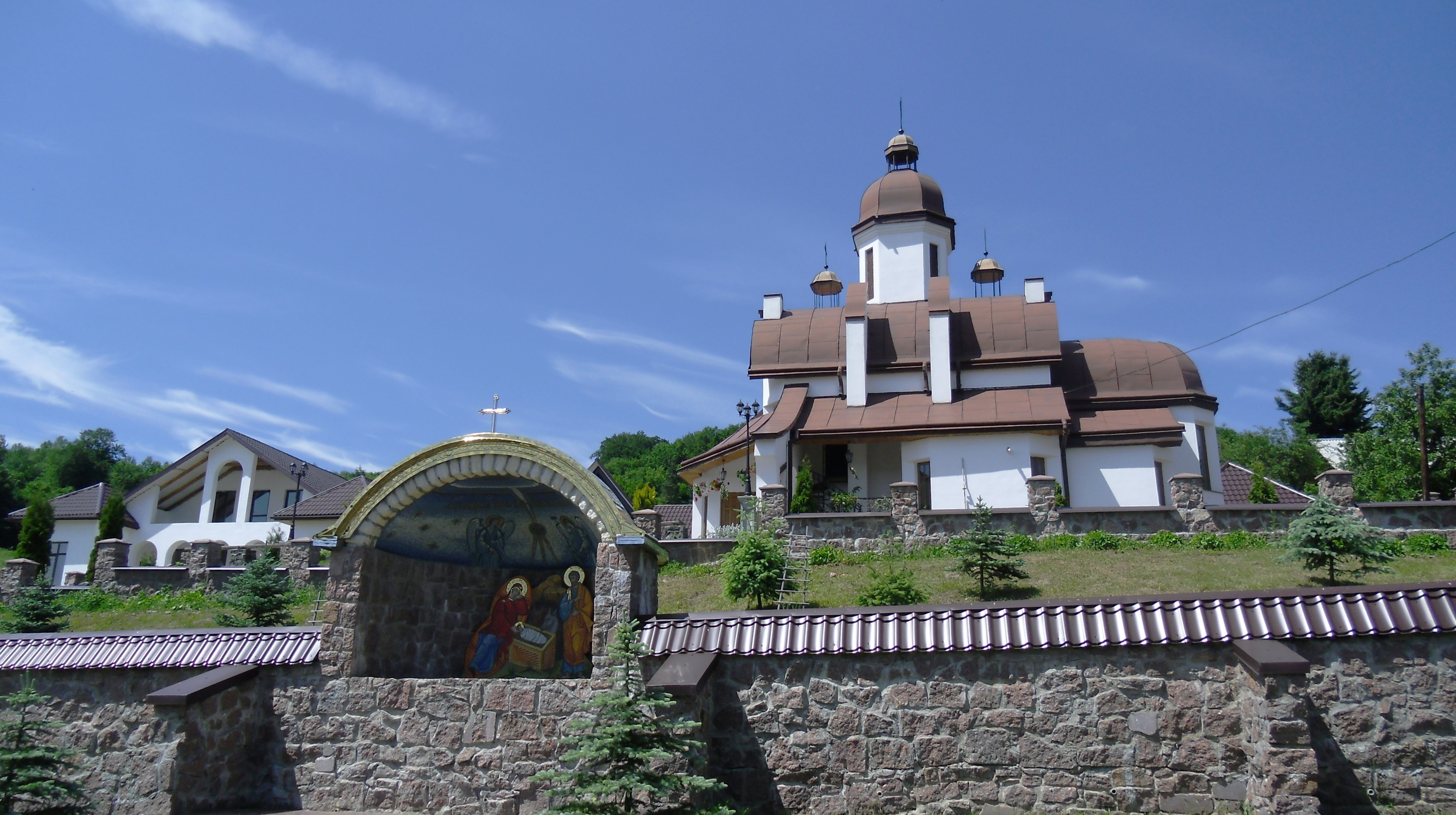 Temple of the Ascension of the Lord UGCC. Univ village, Peremyshliany Raion.